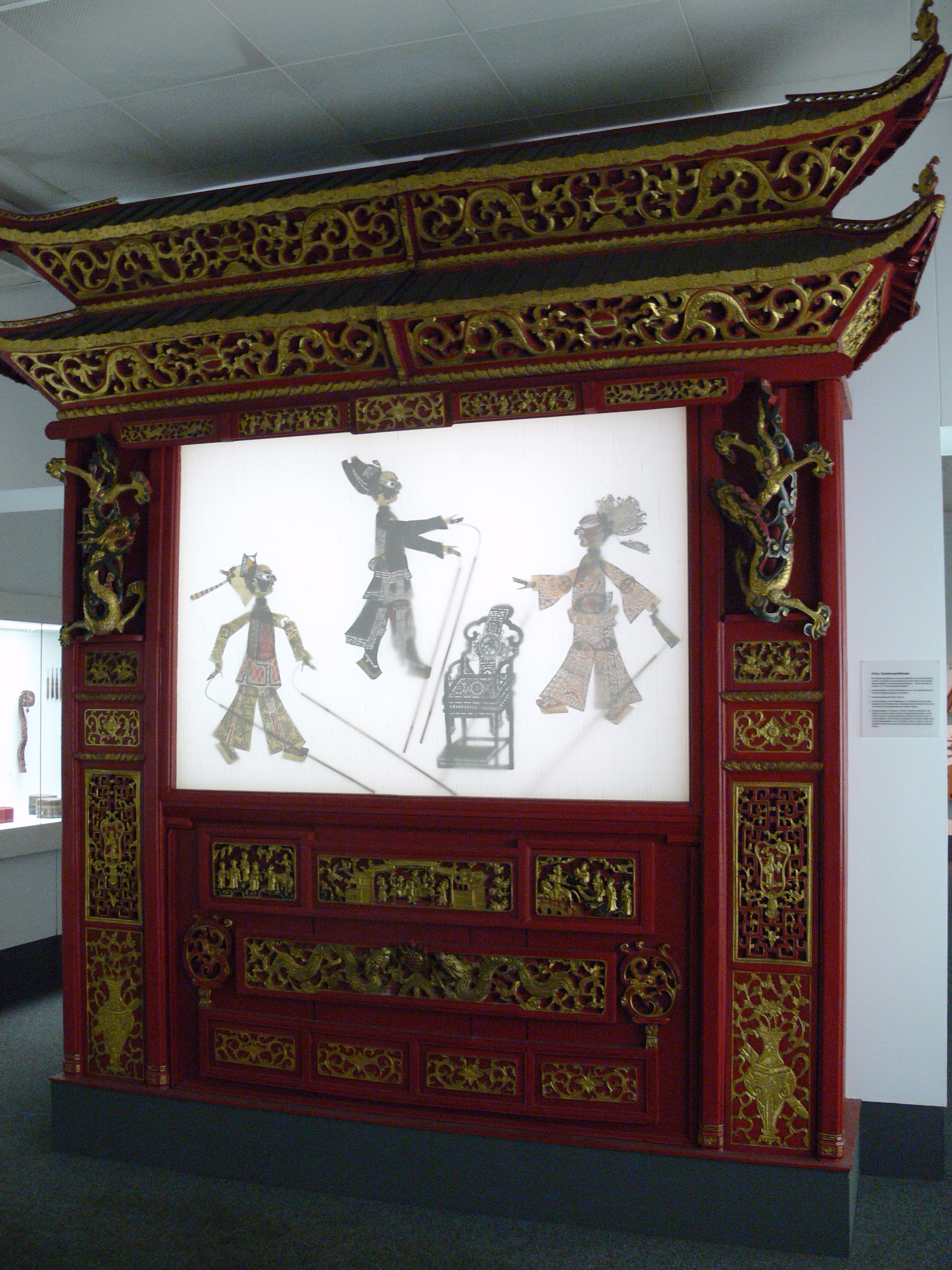 Chinese Shadow Play Theatre, Ethnological Museum, Berlin, Germany